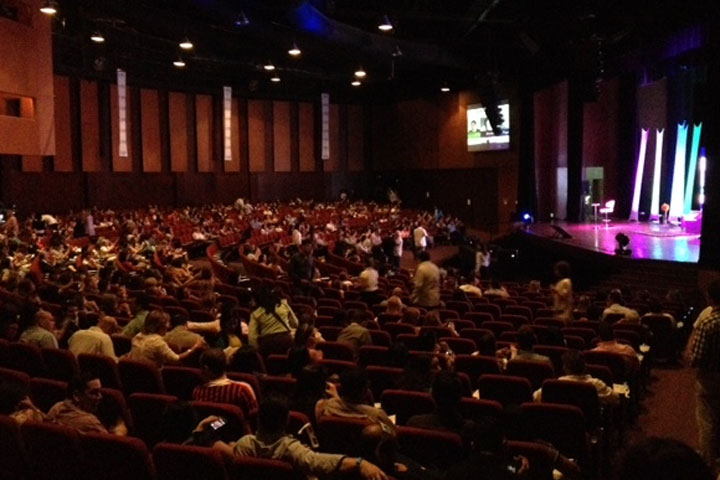 Vista de la Gran Sala